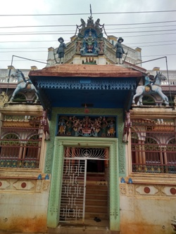 Aththangudi Palace, Atthangudi, Sivaganga district, Tamil Nadu, India